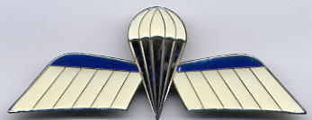 Royal Netherlands military skydiving medal, silver.